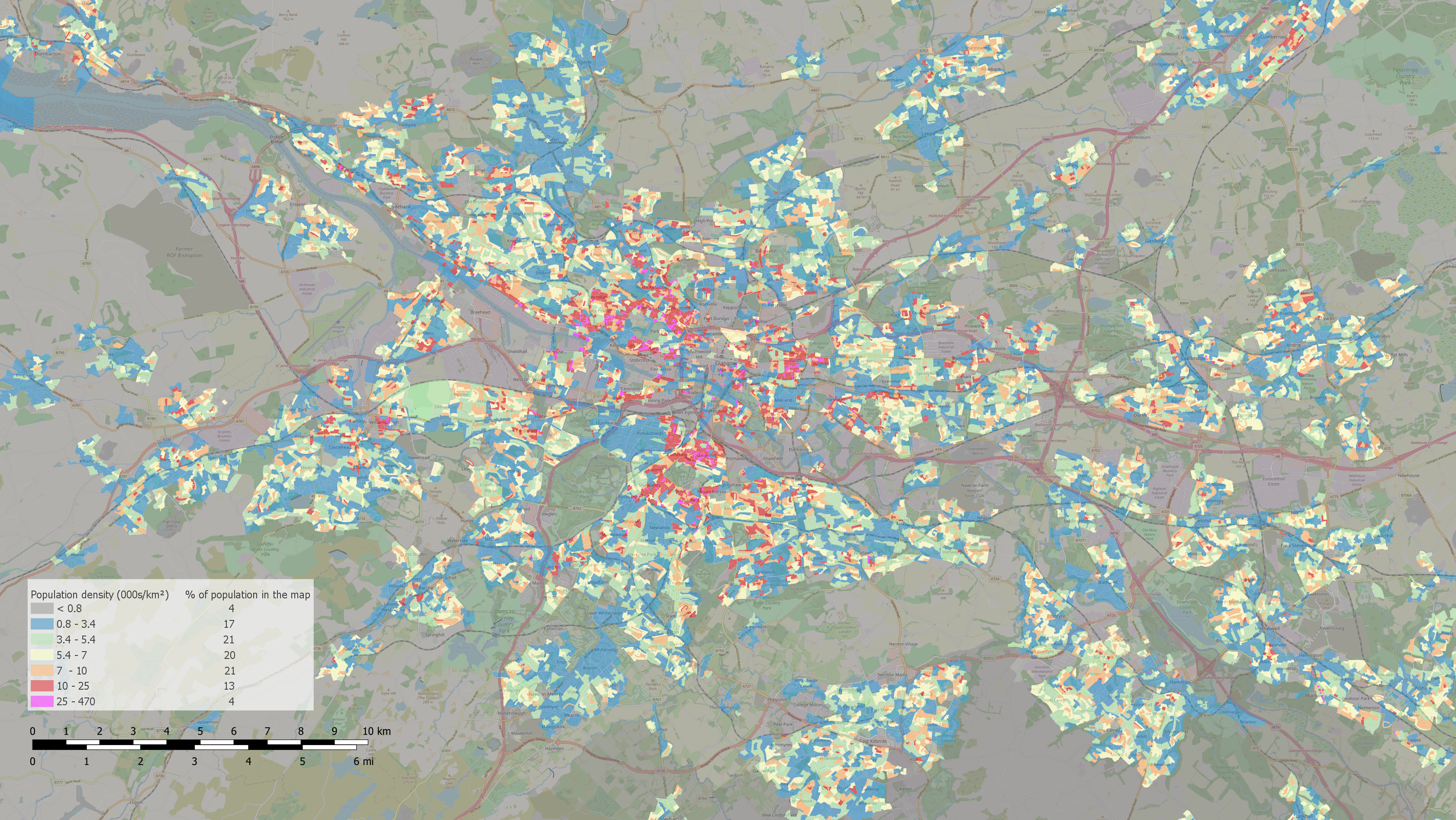 The map area is inhabited by 1.5 mln people. Population density computed from 2011 Output Area (OE) data there is on 2020 map so new neighbourhoods are visible in the grey zone. Values sometimes are not representative because: sometimes a whole nonresidential area is contained in one from a few adjacent OEs. often tower block OEs encompass only building, sometimes only part of it, to keep up stiff household count limit, what gives very high density OE boundaries are visible, especially in red and pink.